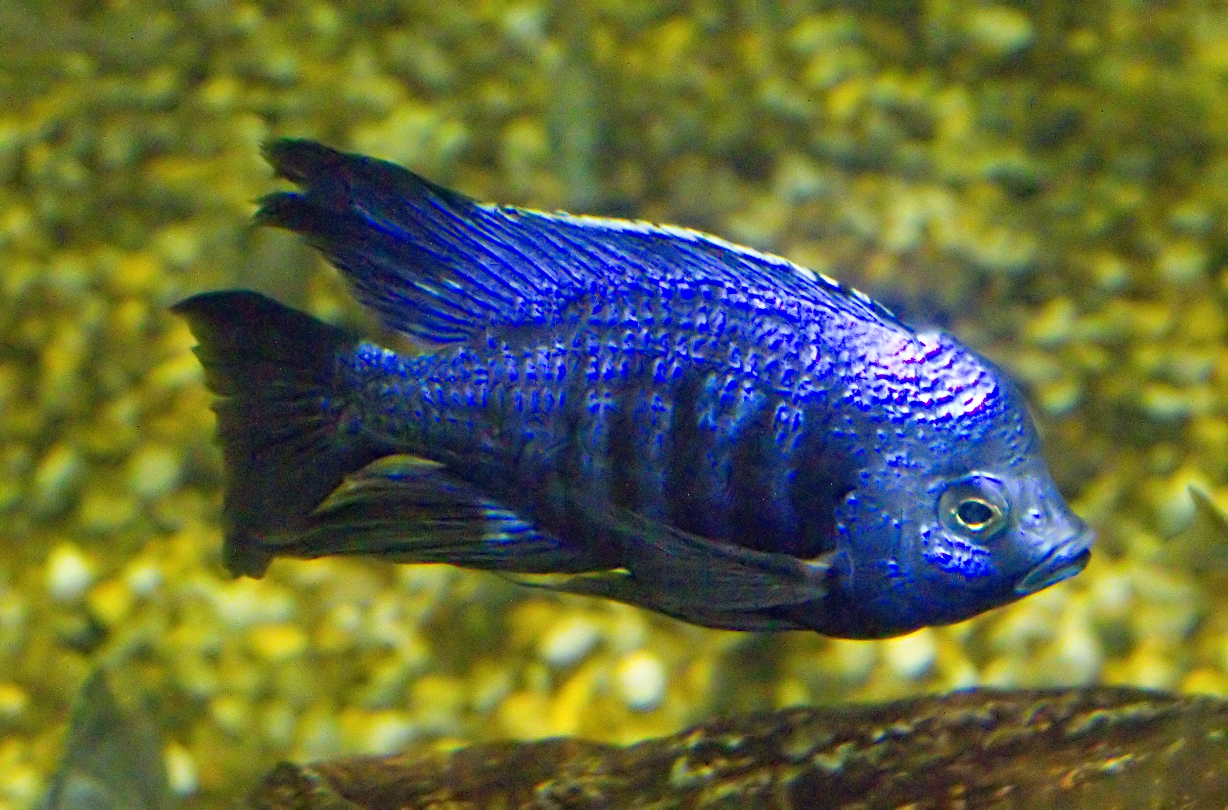 Azureus cichlid at the Cincinnati Zoo.